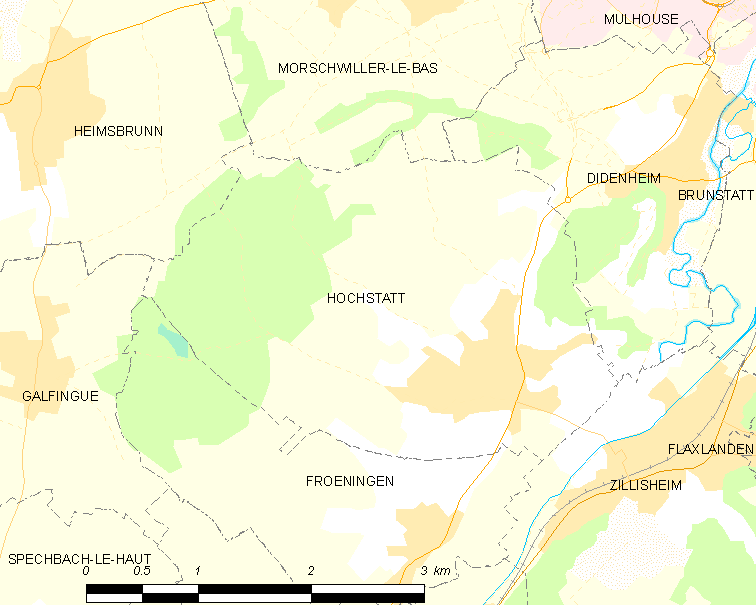 Map of French municipality